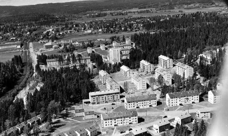 Holmen, Lybekkveien, Luftfartsveien, Holmengrenda, Huseby skole, Røa